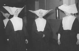 Three Daughters of Charity at Sisters of Charity Hospital in Buffalo in the early years.